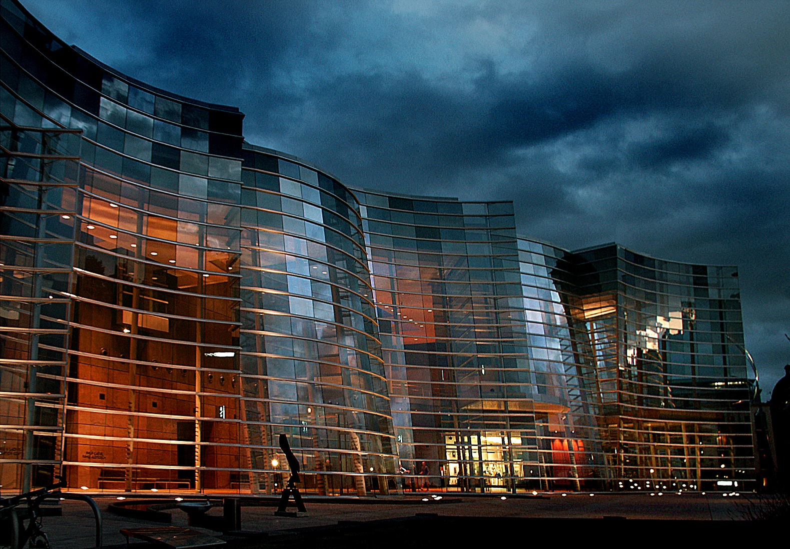 The Christchurch Art Gallery, with the formal name of Christchurch Art Gallery Te Puna o Waiwhetu, is the public art gallery of the city of Christchurch, New Zealand. It is funded by Christchurch City Council. It has its own substantial art collection and presents a programme of New Zealand and international exhibitions. The gallery opened on 10 May 2003 replacing the city's former public art gallery, the Robert McDougall Art Gallery, which opened on 16 June 1932 and closed on 16 June 2002.